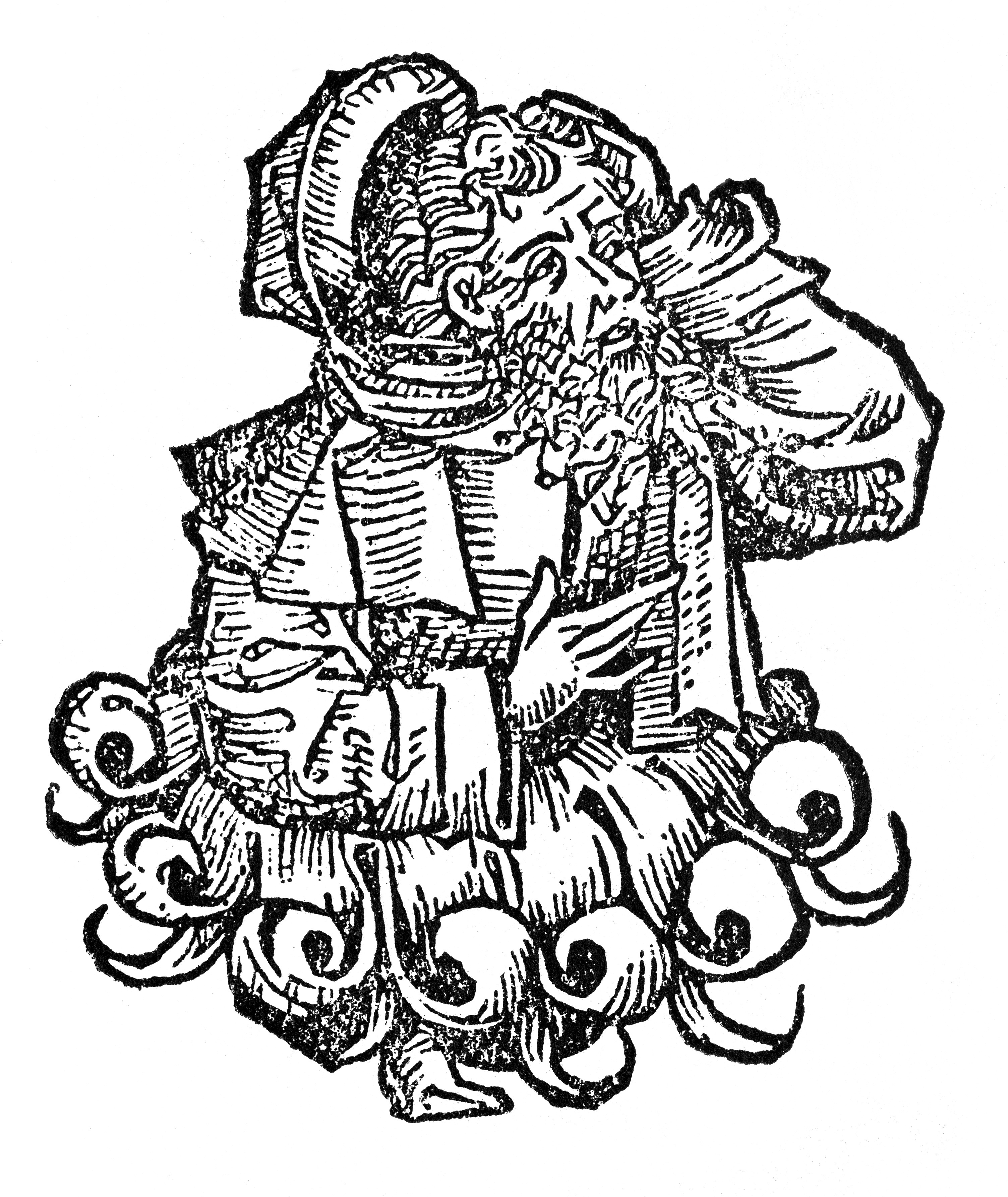 Portrait of Avenzoar from the Nuremberg Chronicle, 1493. Wellcome Images Keywords: Avenzoar